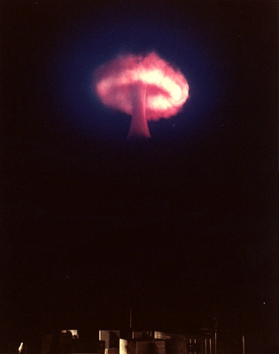 Operation Dominic - Truckee shot.